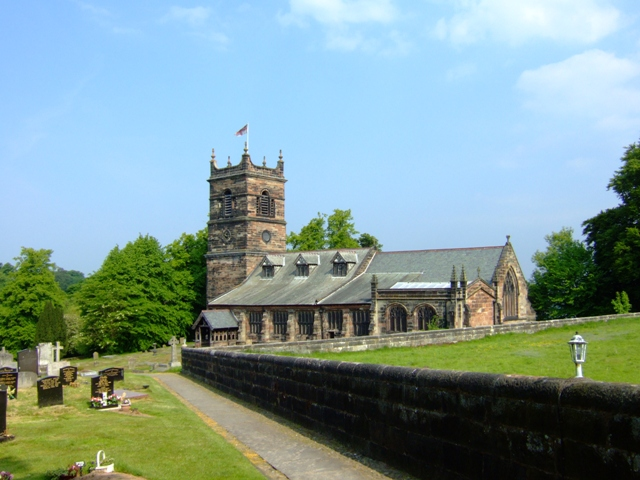 St Mary, Rostherne The parish church for the Tatton Estate village of Rostherne. The churchyard is slightly strange because all of the old memorials near to the church have been laid flat making it look a bit like a car park!